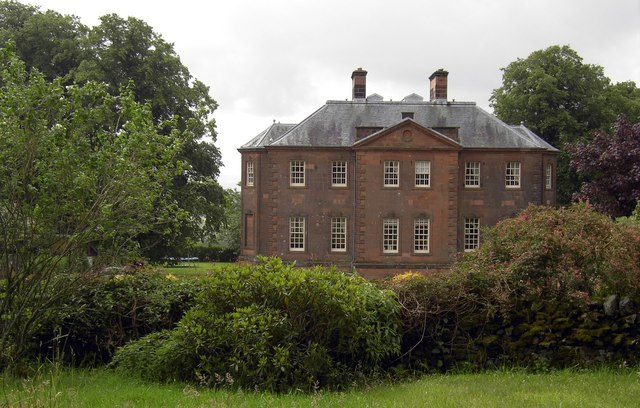 Tinwald House Tinwald House.